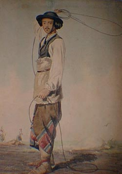 Watercolour over paper. Size: 33,5 cm x 24 cm